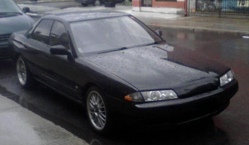 Nissan Skyline photographed in Montreal, Quebec, Canada.